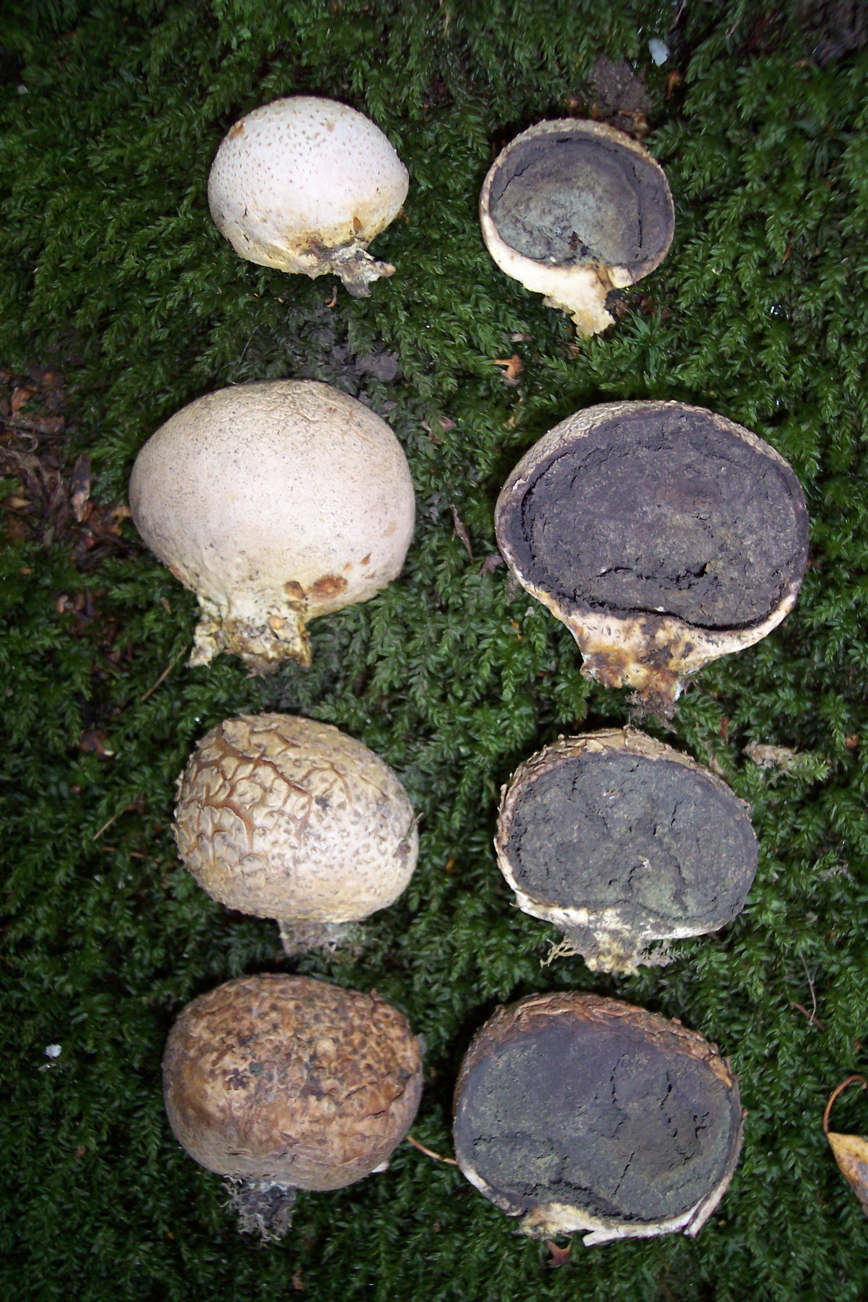 pigskin poison puffball